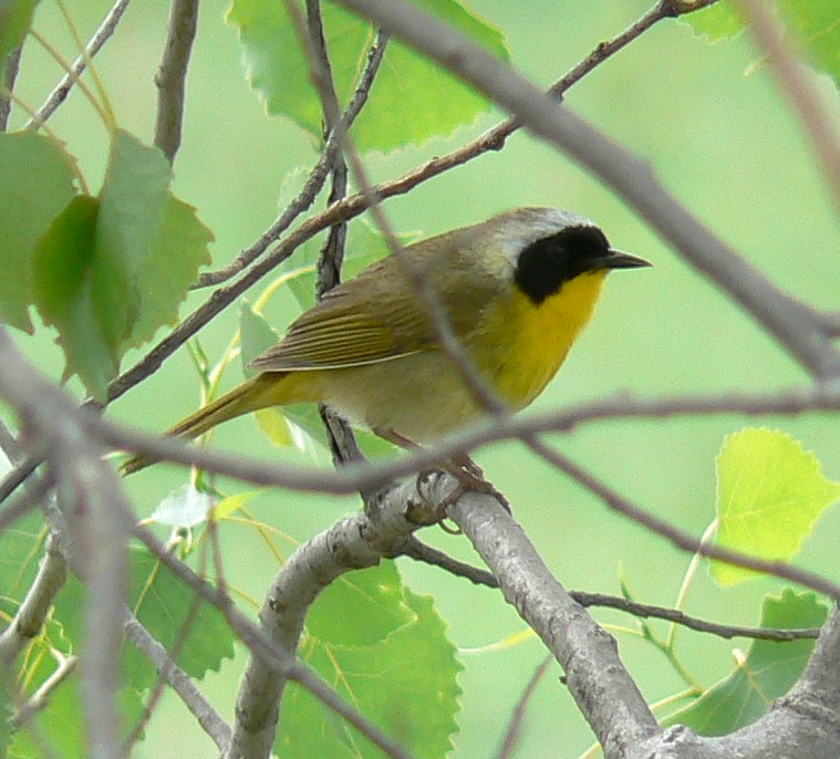 Common Yellowthroat at Chalco Hills Recreation Area